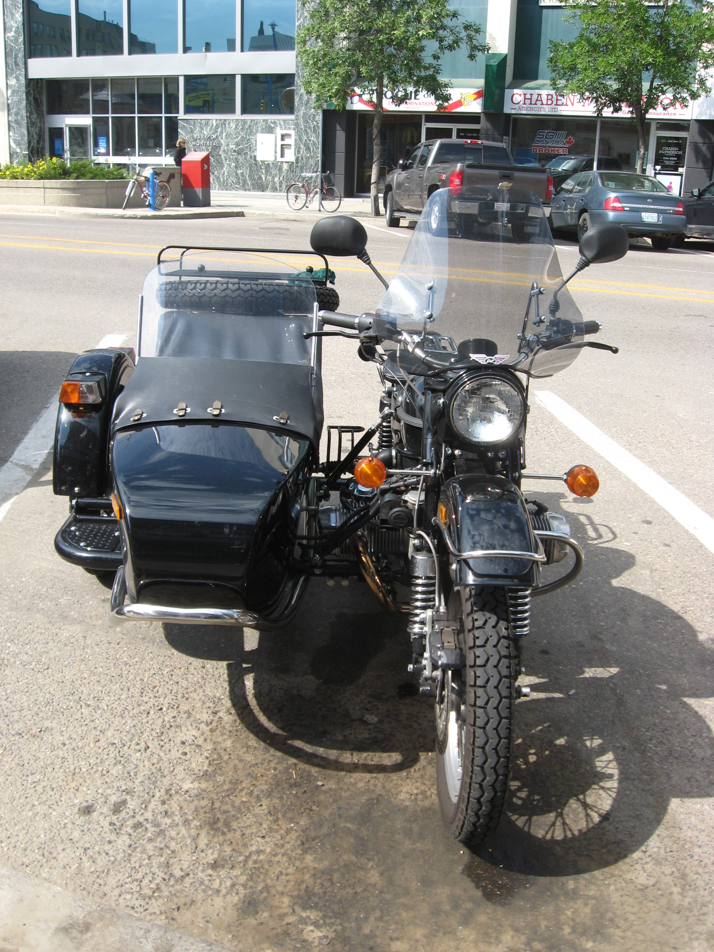 Ural motorcycle with sidecar, shot on local street